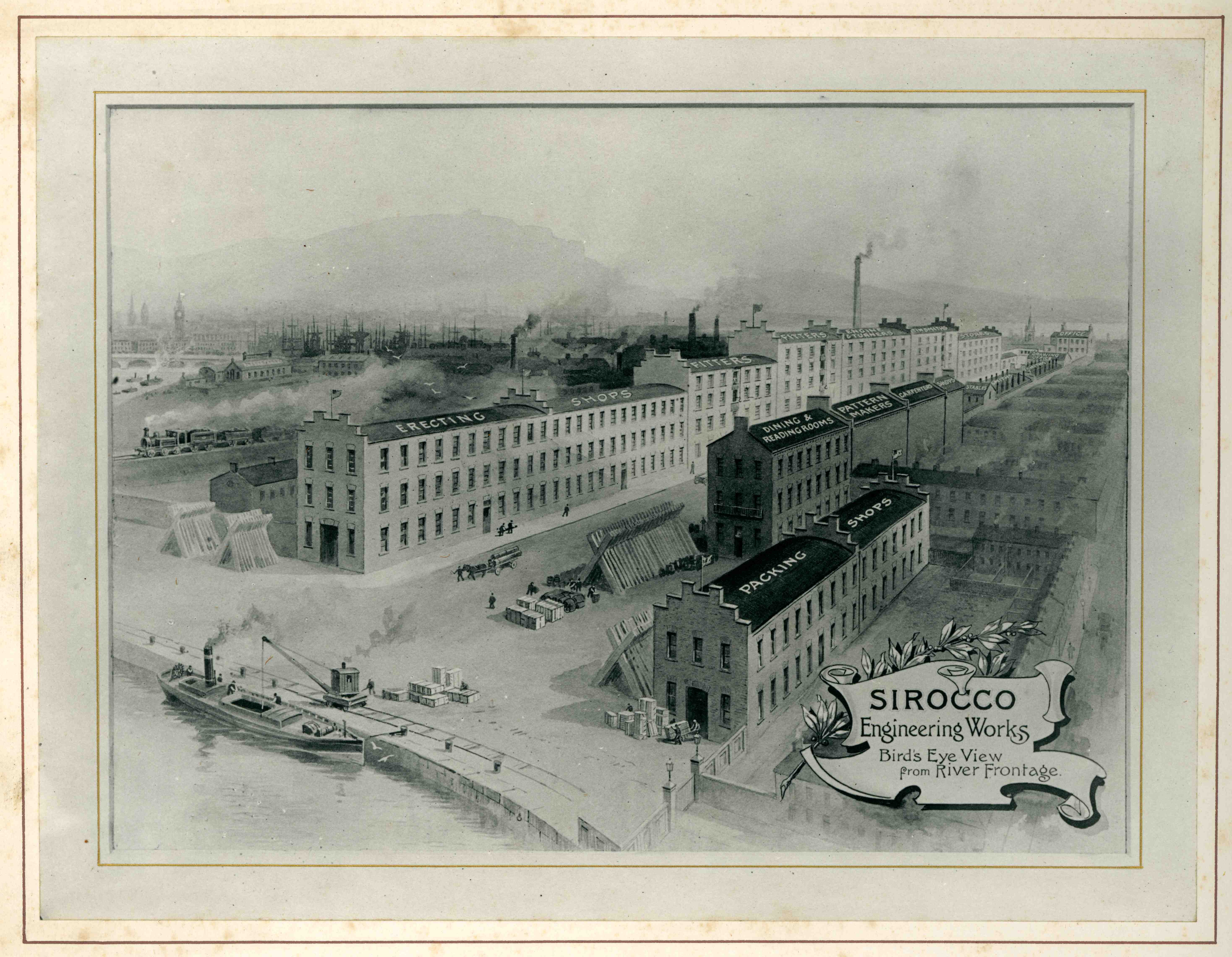 Samuel Cleland Davidson's Sirocco Engineering Works, Belfast. Hand painted illustration from an illuminated coming of age book presented to his son James on his 21st birthday. This is a scan of the original in the Bleakley Family archive owned by the copyright holder.